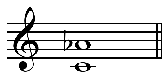 Created by Hyacinth (talk) 04:01, 8 January 2011 using Sibelius 5. Interval of a minor sixth on C. 12-TET: 800 cents. Just: 8:5 = 813.69 cents.